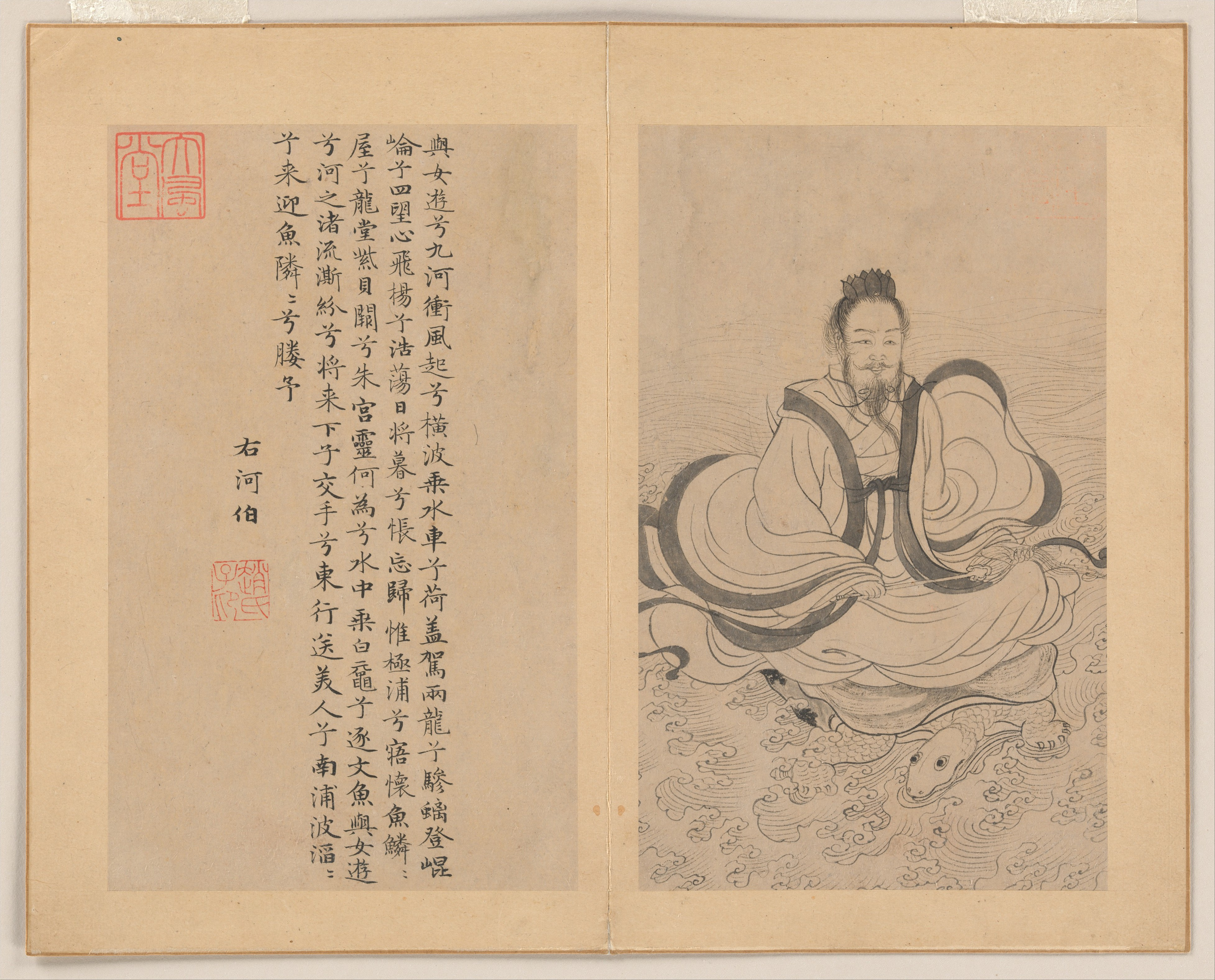 The Metropolitan Museum of Art states: The Nine Songs are lyrical, shamanistic incantations dedicated to nine classes of deities worshipped by the Chu people of south China during the first millennium B.C. The original text consists of eleven songs, ten of which are transcribed and illustrated here. The illustrations are preceded by a portrait of the poet Qu Yuan (343–277 B.C.), which is accompanied by an essay entitled "The Fisherman," recounting the poet's state of mind toward the end of his life. Zhao Mengfu's paintings for the Nine Songs in the baimiao, or "white-drawing" style, are based on compositions by Li Gonglin (ca. 1041–1106) and were a primary source for later fourteenth-century paintings of this theme by Zhang Wu (active 1333–65) and others. Because the calligraphy in the album does not compare with the best of Zhao Mengfu's writing, it is probable that these leaves represent close, reliable copies of Zhao's important work, executed during the fourteenth century. One leaf, "The Lord of Clouds," is a later replacement (no earlier than the seventeenth century).